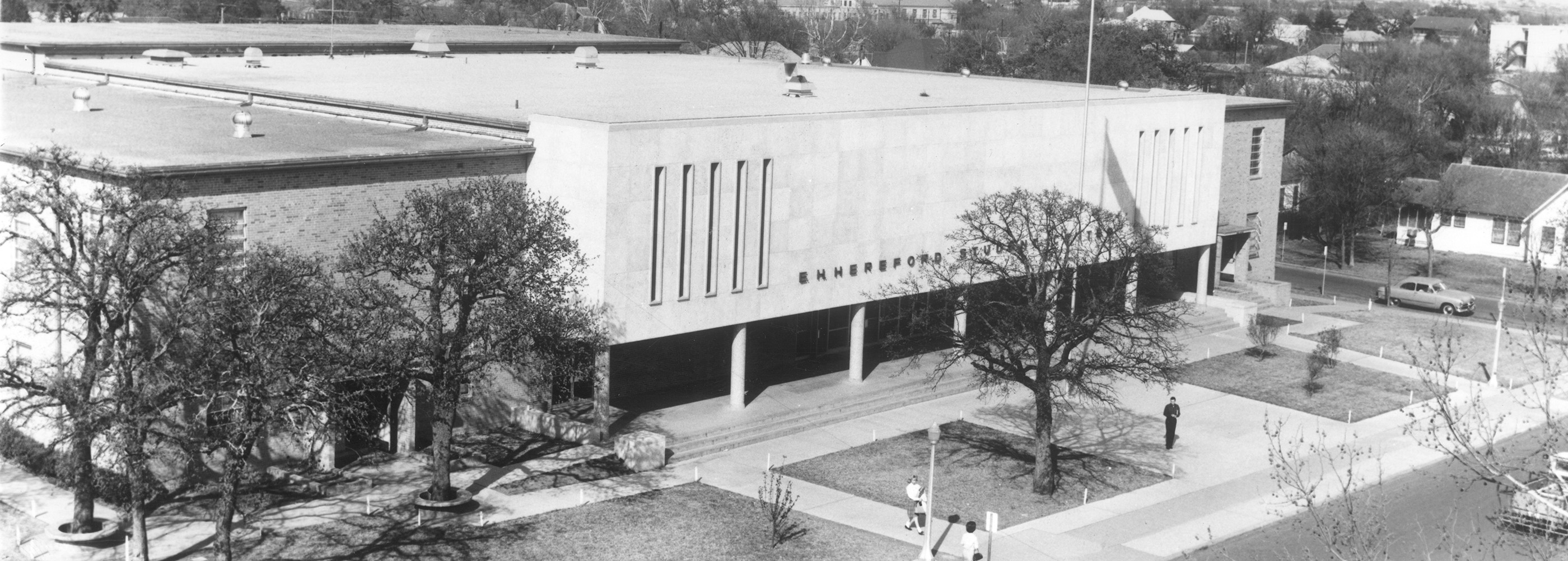 Arlington State College, E.H. Hereford Center [built 1952; named for President Hereford in 1958].